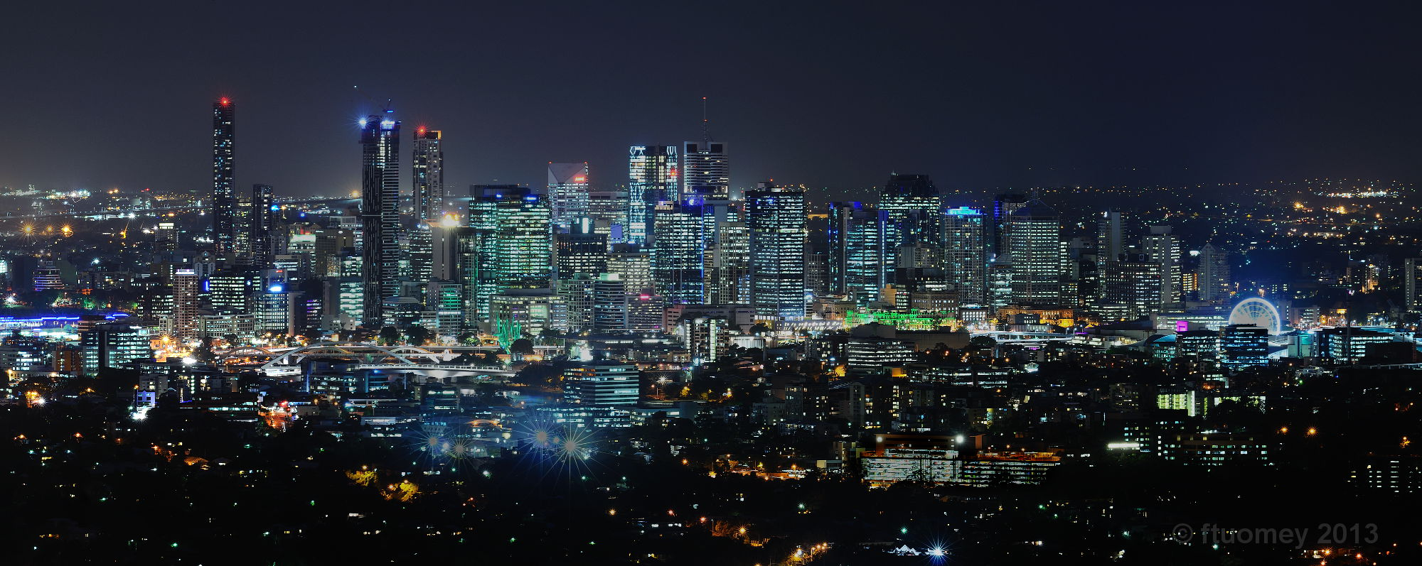 Brisbane night skyline from Mount Coot-tha